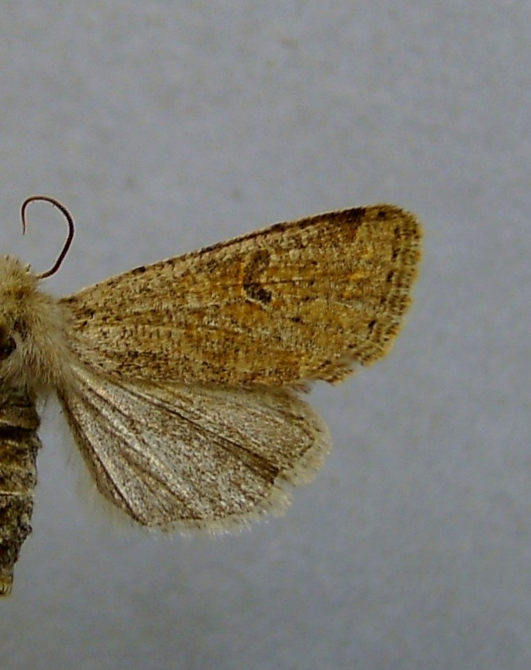 Orthosia cruda, female, Berlin, Spandau Germany